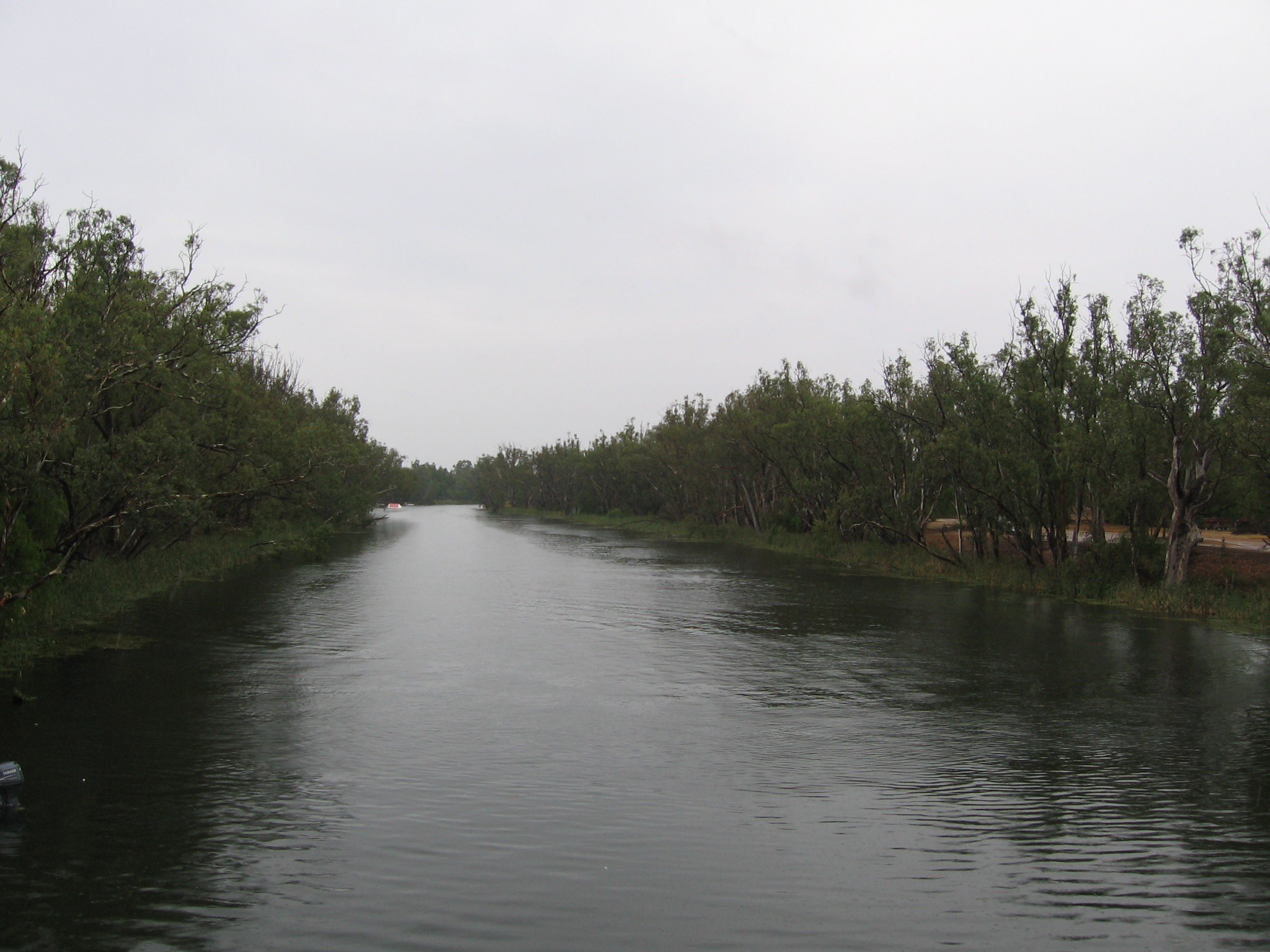 The Loddon River, upstream from the weir at Bridgewater On Loddon, Victoria.